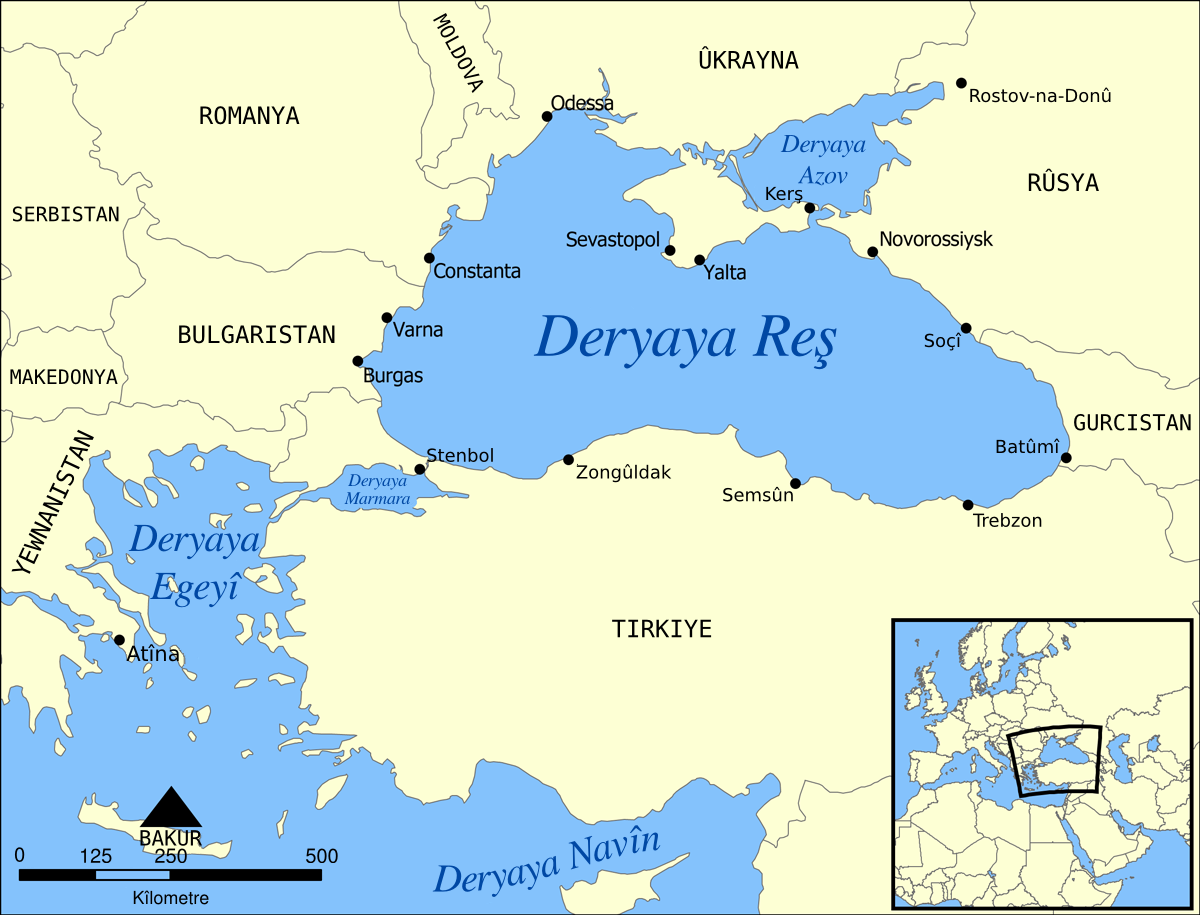 A map showing the location of the Black Sea and some of the large or prominent ports around it. The Sea of Azov and Sea of Marmara are also labelled. Kurdî: Deryaya Reş û Deryaya Azov